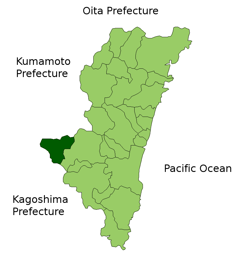 Location Map of Ebino in Miyazaki Prefecture, Japan